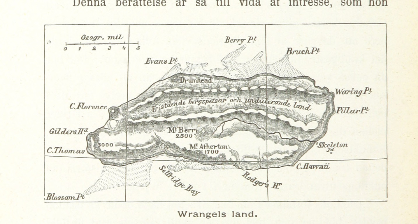 View this map on the BL Georeferencer service. Image taken from: Title: "Minnen från Vegas färd [under Baron Nordenskiöld] och dess svenska föregångare jämte en kortfattad framställning af nordostpassagens historia och den amerikanska nordpols-expeditionen under De Long, etc" Author: STUXBERG, Anton Julius. Contributor: DE LONG, George Washington. Contributor: NORDENSKIÖLD, Nils Adolf Erik - Baron Shelfmark: "British Library HMNTS 10460.e.30." Page: 272 Place of Publishing: Stockholm Date of Publishing: 1890 Issuance: monographic Identifier: 003535763 Explore: Find this item in the British Library catalogue, 'Explore'. Download the PDF for this book (volume: 0) Image found on book scan 272 (NB not necessarily a page number) Download the OCR-derived text for this volume: (plain text) or (json) Click here to see all the illustrations in this book and click here to browse other illustrations published in books in the same year. Order a higher quality version from here.